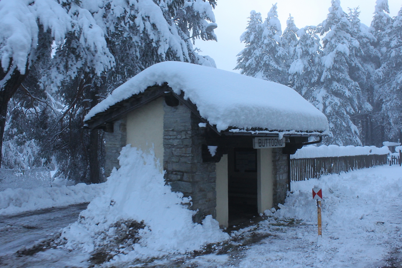 Buttogno train station, a request stop sign can be seen.